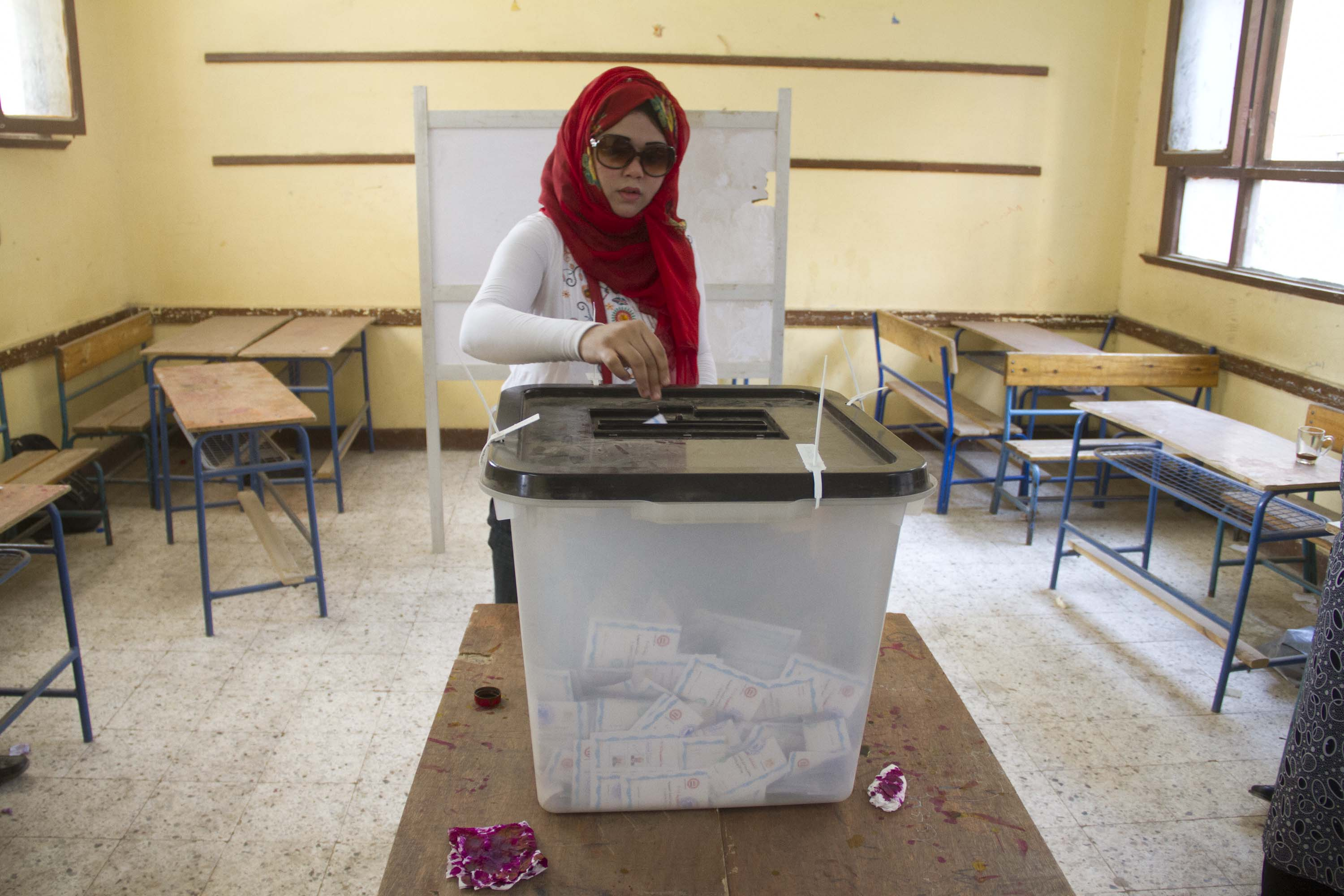 Original description: "A woman votes in Cairo, May 27, 2014. (Hamada Elrasam /VOA)"